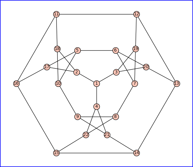 Lou1=Graph({1:[2,3,4], 5:[6,10],6:[7],7:[8],8:[9],9:[10], 11:[16,12],12:[13],13:[14],14:[15],15:[16], 17:[2,5,16],18:[2,10,11], 19:[3,7,12],20:[3,6,13], 21:[9,4,14],22:[4,8,15]})}